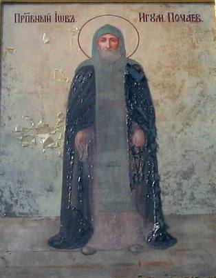 Saint Job of Pochayiv monastery, Ternopil oblast, western Ukraine.